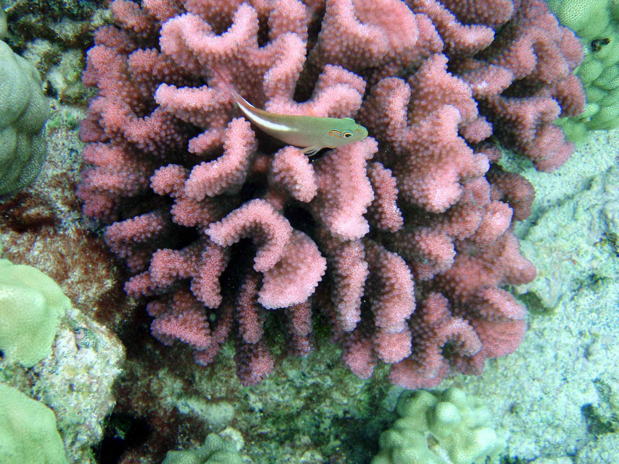 Pocillopora meandrina with a resident fish